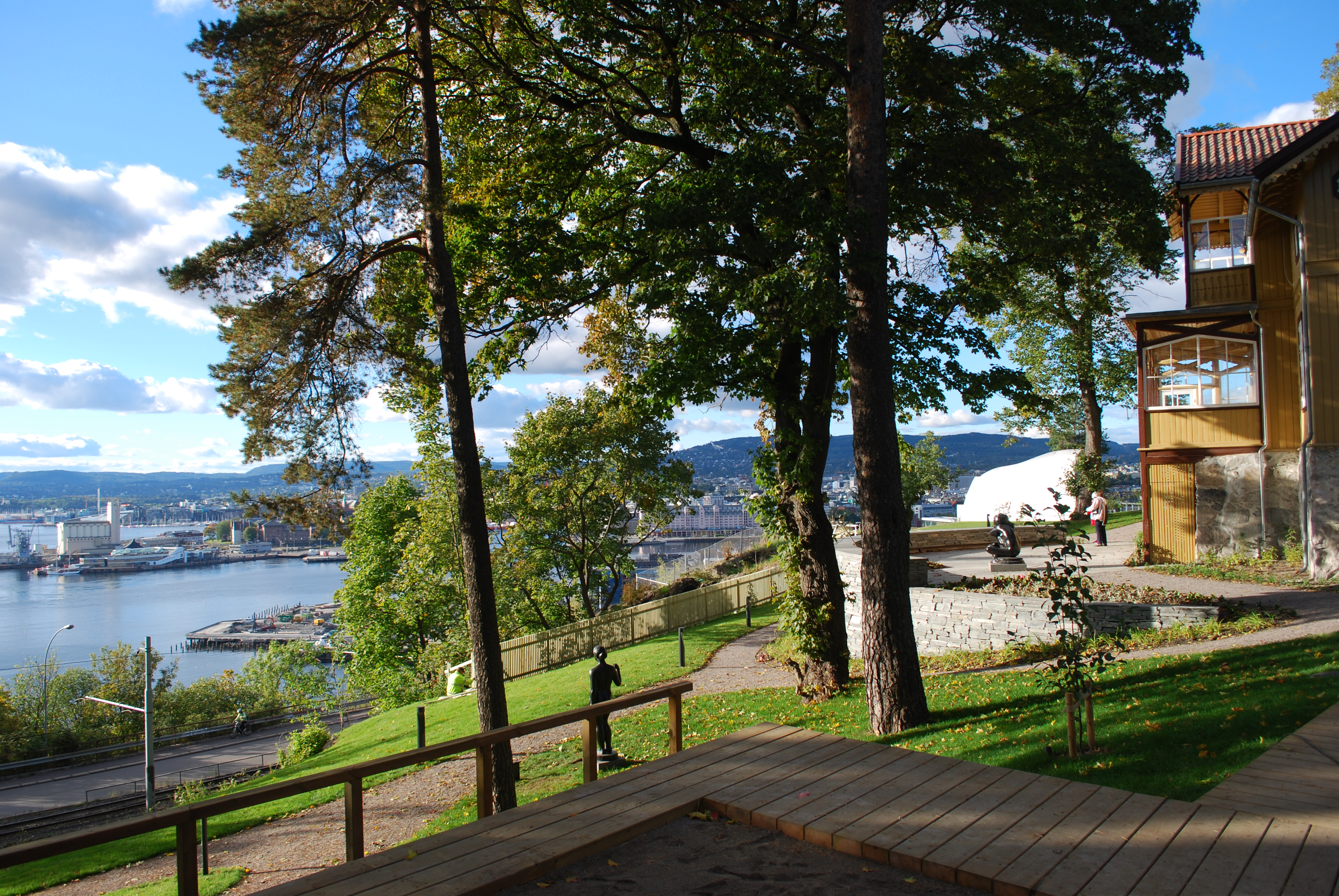 The sculpture park Ekebergparken, Oslo, garden with the building Karlsborg to the right, sculpture close is "Nue Sans Draperie" by Aristide Maillol, close to the building is "Cariatide à l´urne" by Auguste Rodin